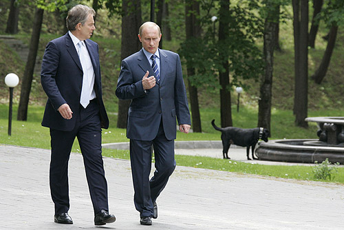 NOVO-OGARYOVO. With British Prime Minister Anthony Blair.